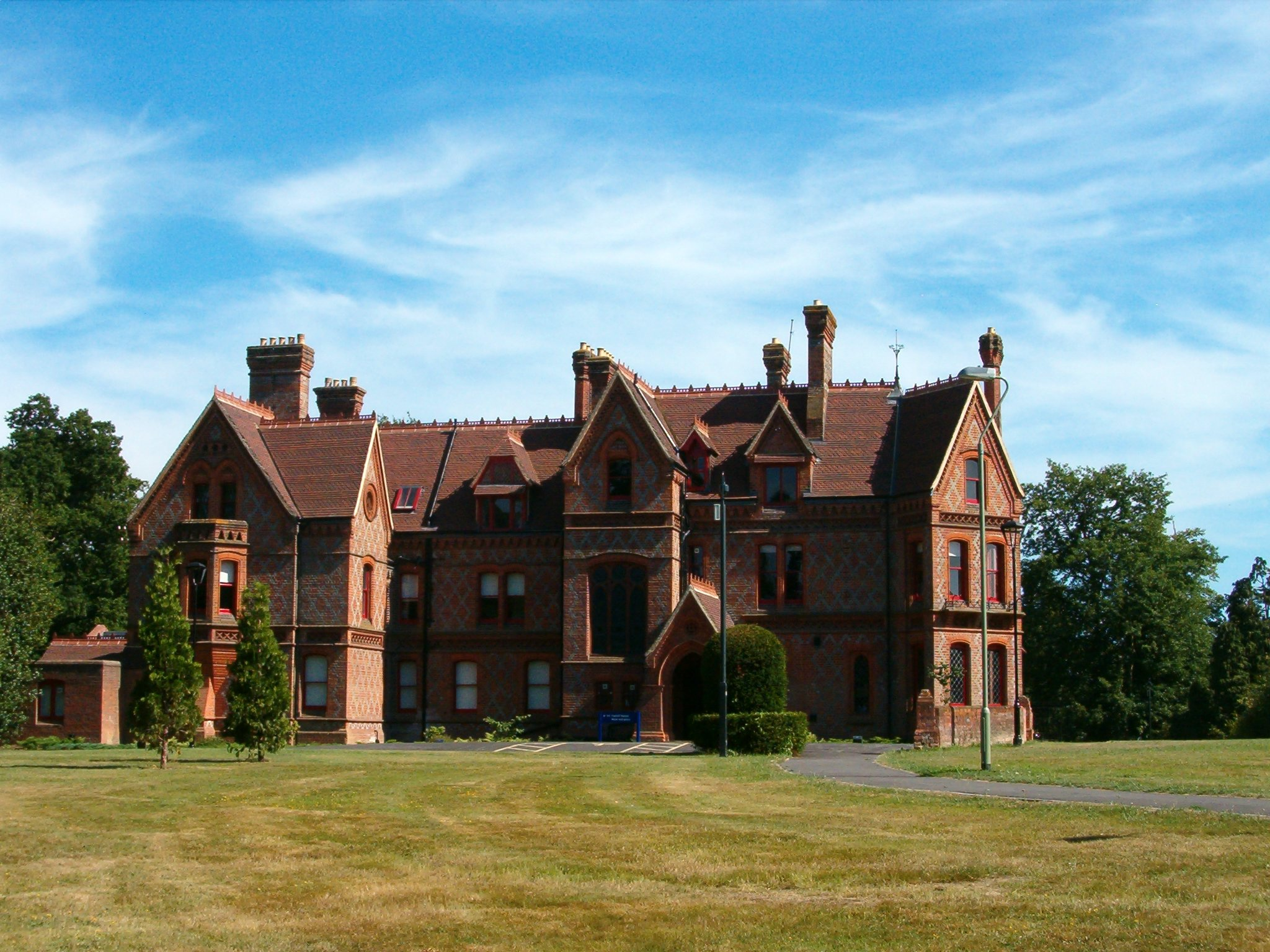 Foxhill house, Whiteknights, The University of Reading, Reading, Berkshire, England. For more information see the Wikipedia article Foxhill House. Photo taken by Joshua Knight, 16th July 2006.